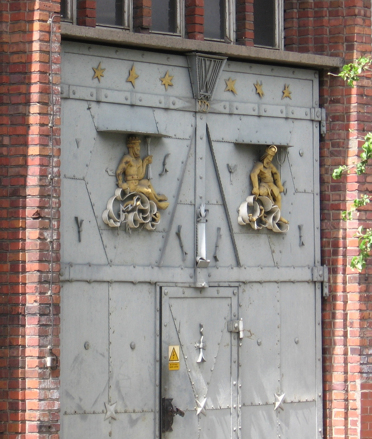 The door to northern hydroelectric plant on Odra River in Wrocław, Poland